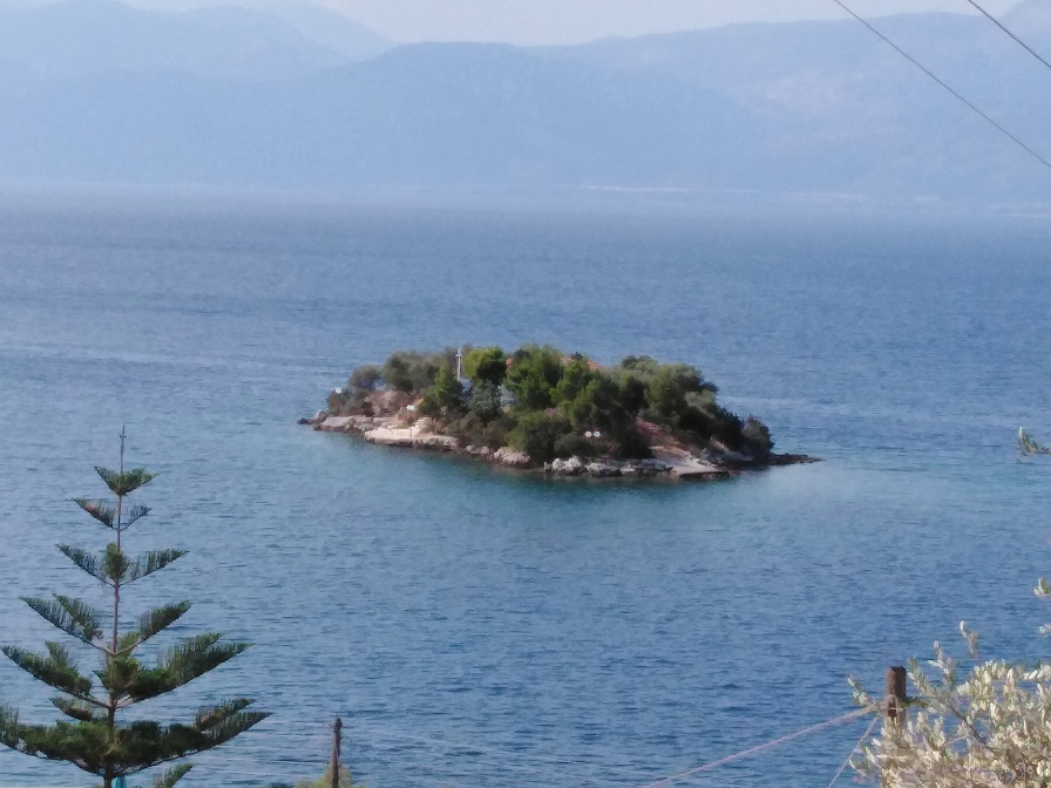 Agios Nikolaos Fokidas island